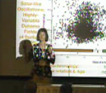 Prof. Conny Aerts Kepler & K2 Science Conference IV June 2017